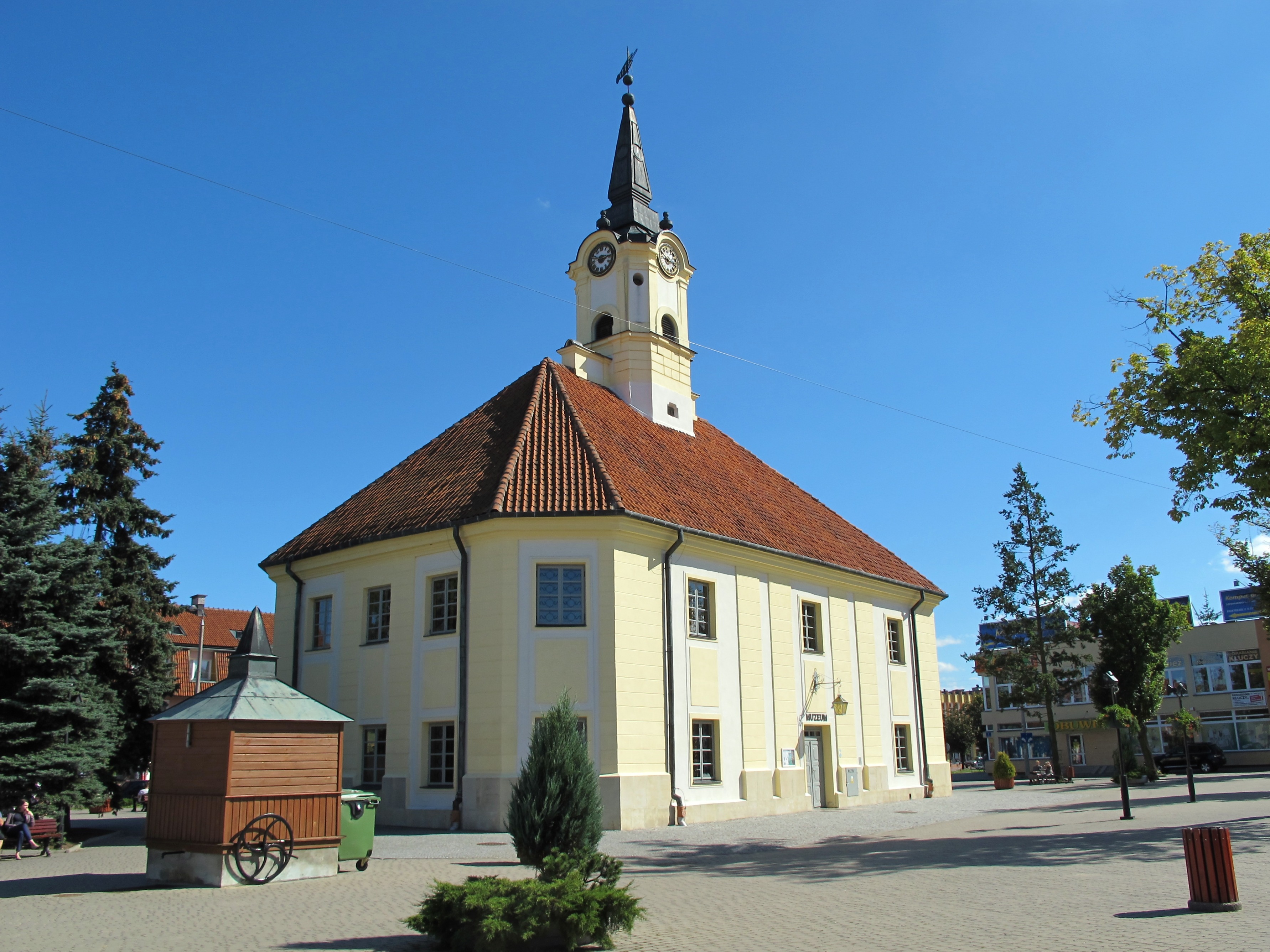 Town hall by Mickiewicza 45 in Bielsk Podlaski, gmina Bielsk Podlaski, podlaskie, Poland.